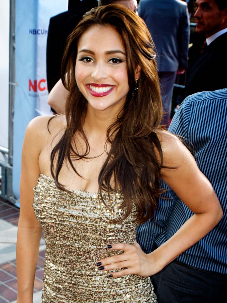 Lindsey Morgan, Alma Awards 2012